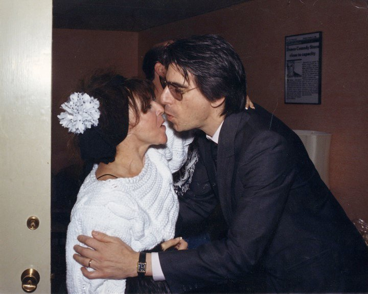 Richard Belzer tries to kiss Mitzi Shore at the Comedy Store